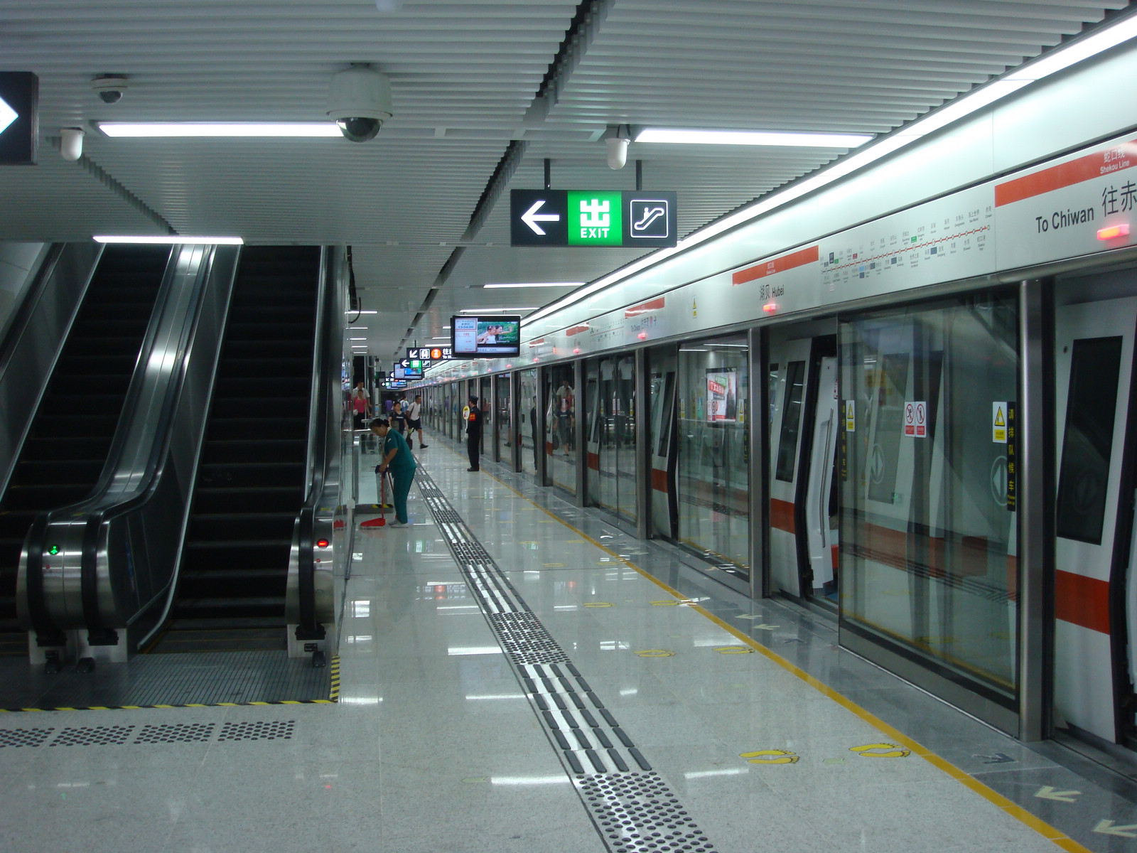 Hubei Station of Shekou Line, Shenzhen Metro.